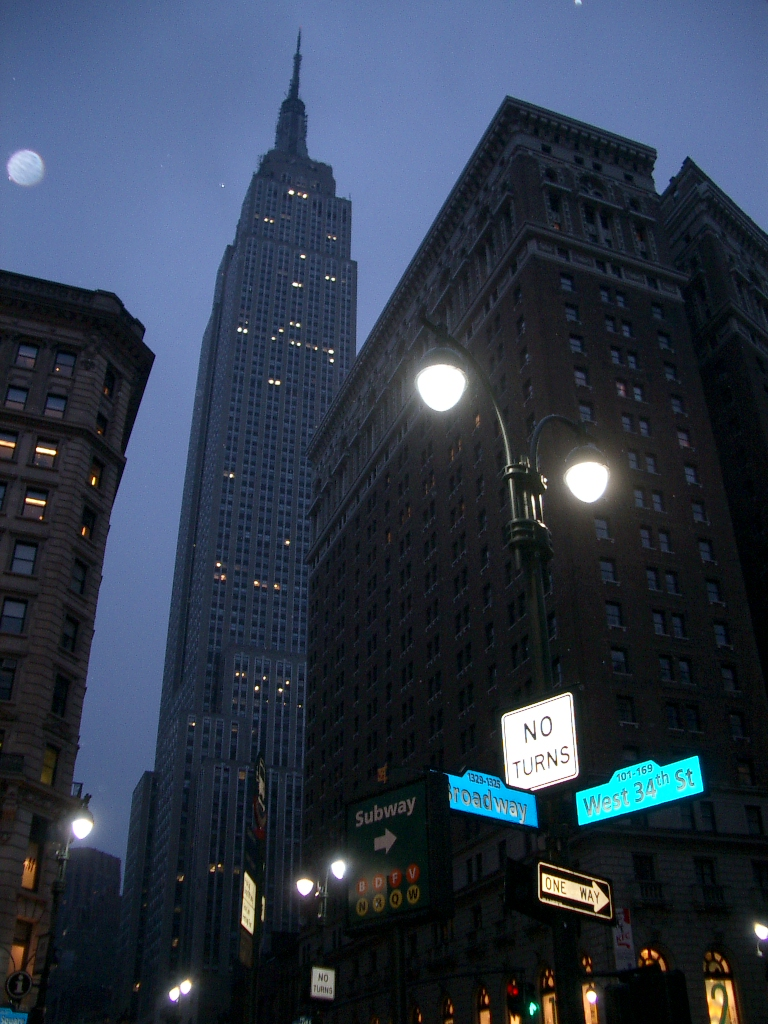 The Empire State Building from the streets of New York City.